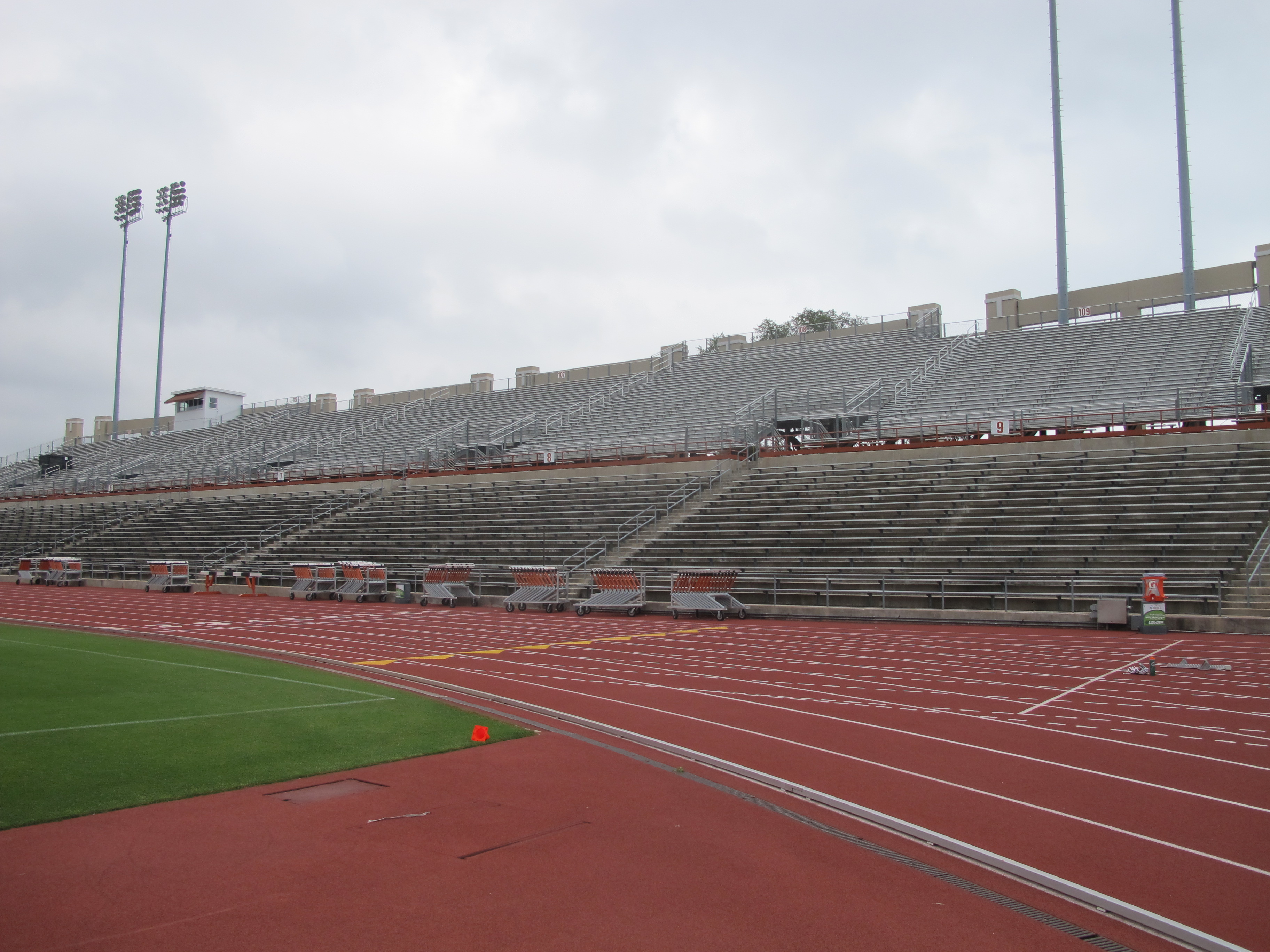 UT's Myers Track Stadium Grandstand